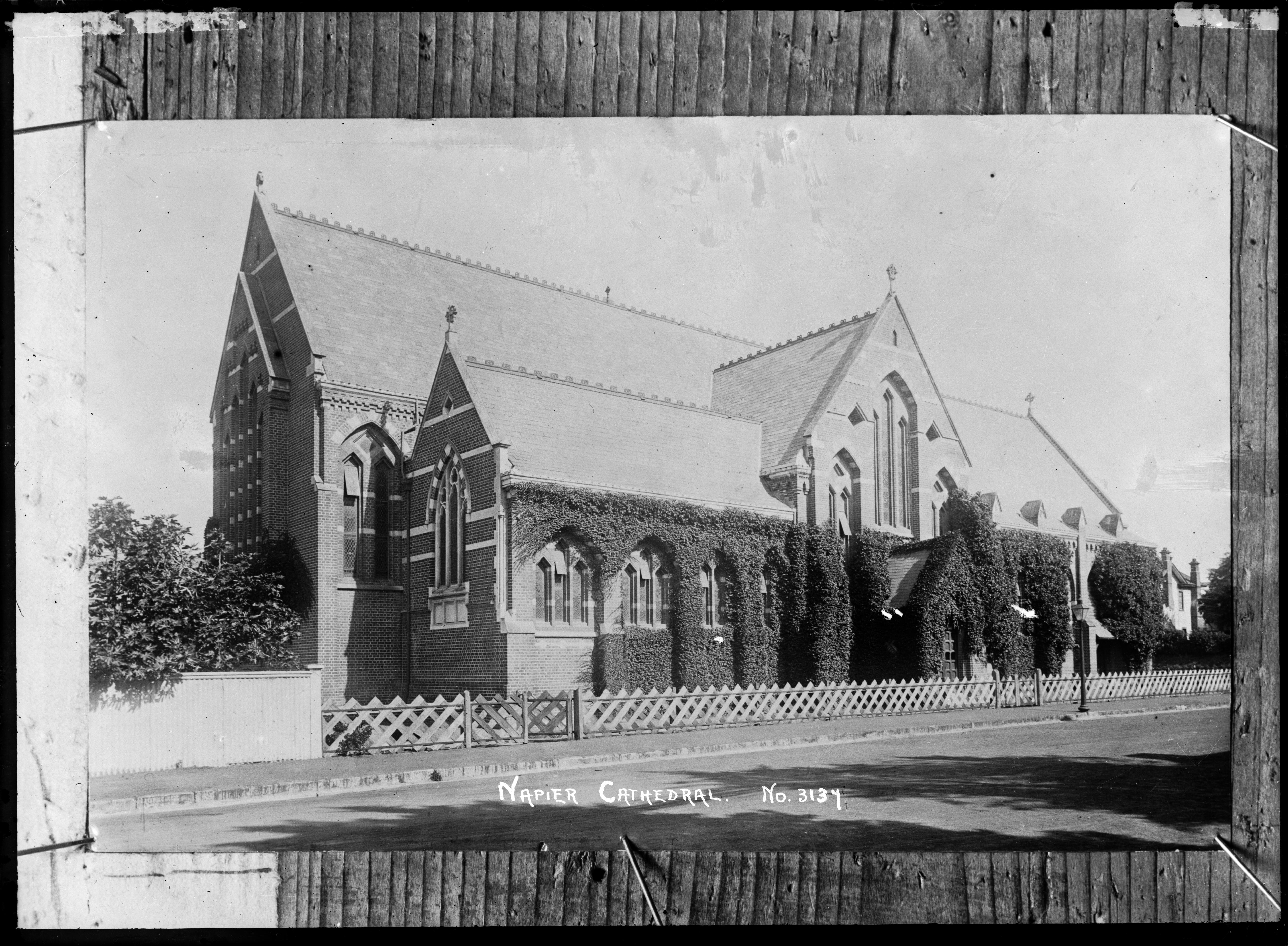 View of St John's Cathedral, Napier. Brick building with much of it covered in virginia creeper or ivy. Photograph taken by William Archer Price, circa 1910s Inscriptions: Inscribed - Photographer's title on negative -bottom centre: Napier Cathedral. No. 3137. Quantity: 1 b&w original negative(s). Physical Description: Dry plate glass negative 4.5 x 6.5 inches St John's Cathedral, Napier. Price, William Archer, 1866-1948 :Collection of post card negatives. Ref: 1/2-001384-G. Alexander Turnbull Library, Wellington, New Zealand.